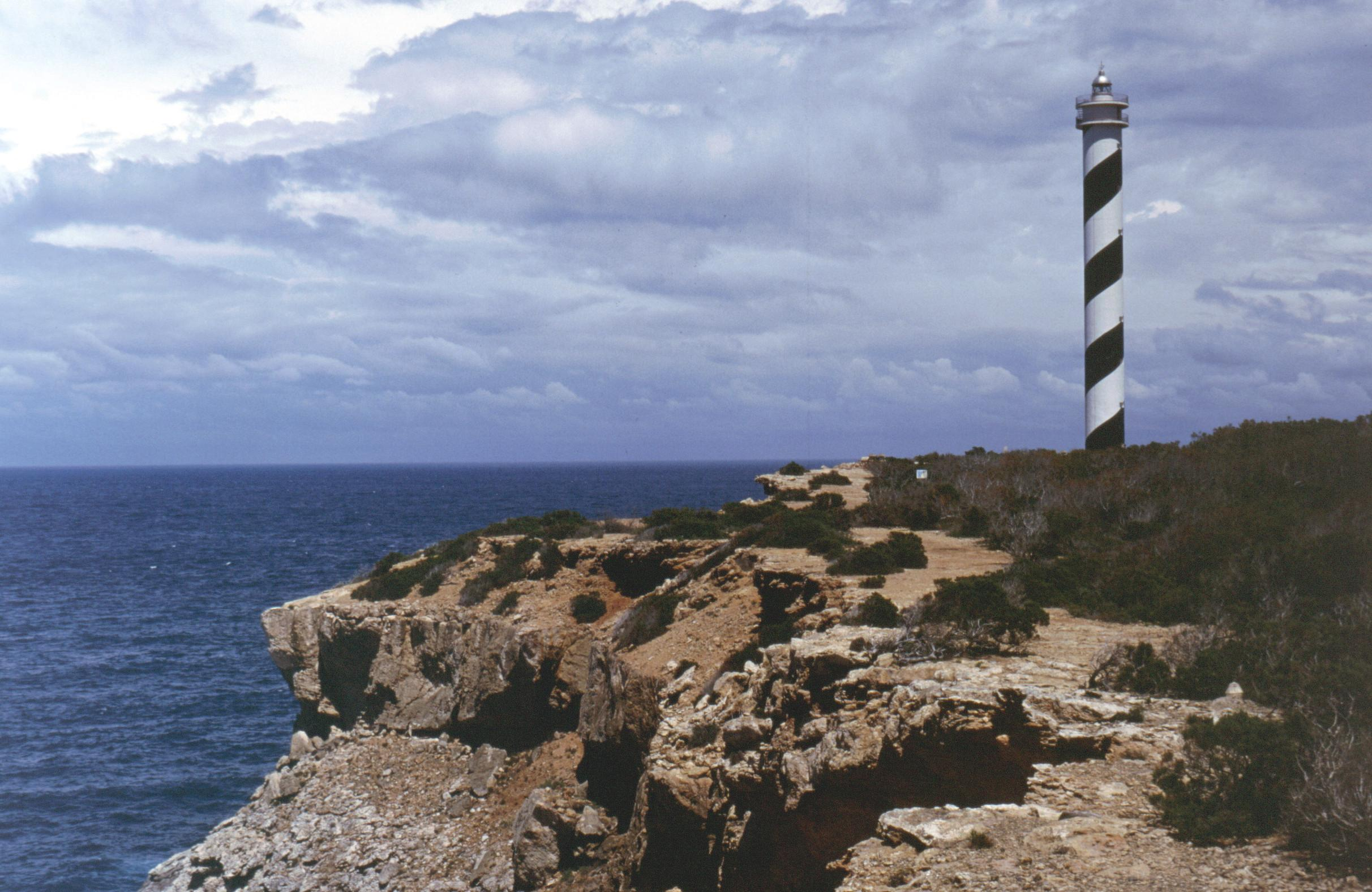 Lighthouse near Portinatx, Ibiza, Spain May 2003 by Matthias Prinke